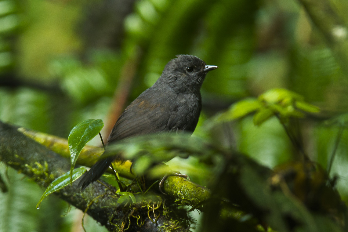 Long-tailed Tapaculo (Scytalopus micropterus) - Ecuador_S4E4271